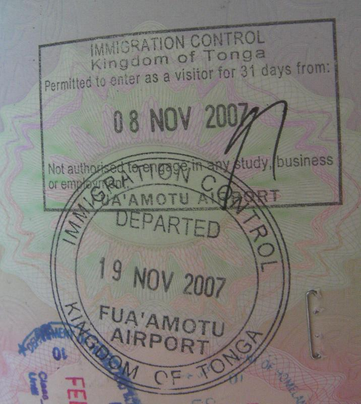 Passport stamps from Tonga